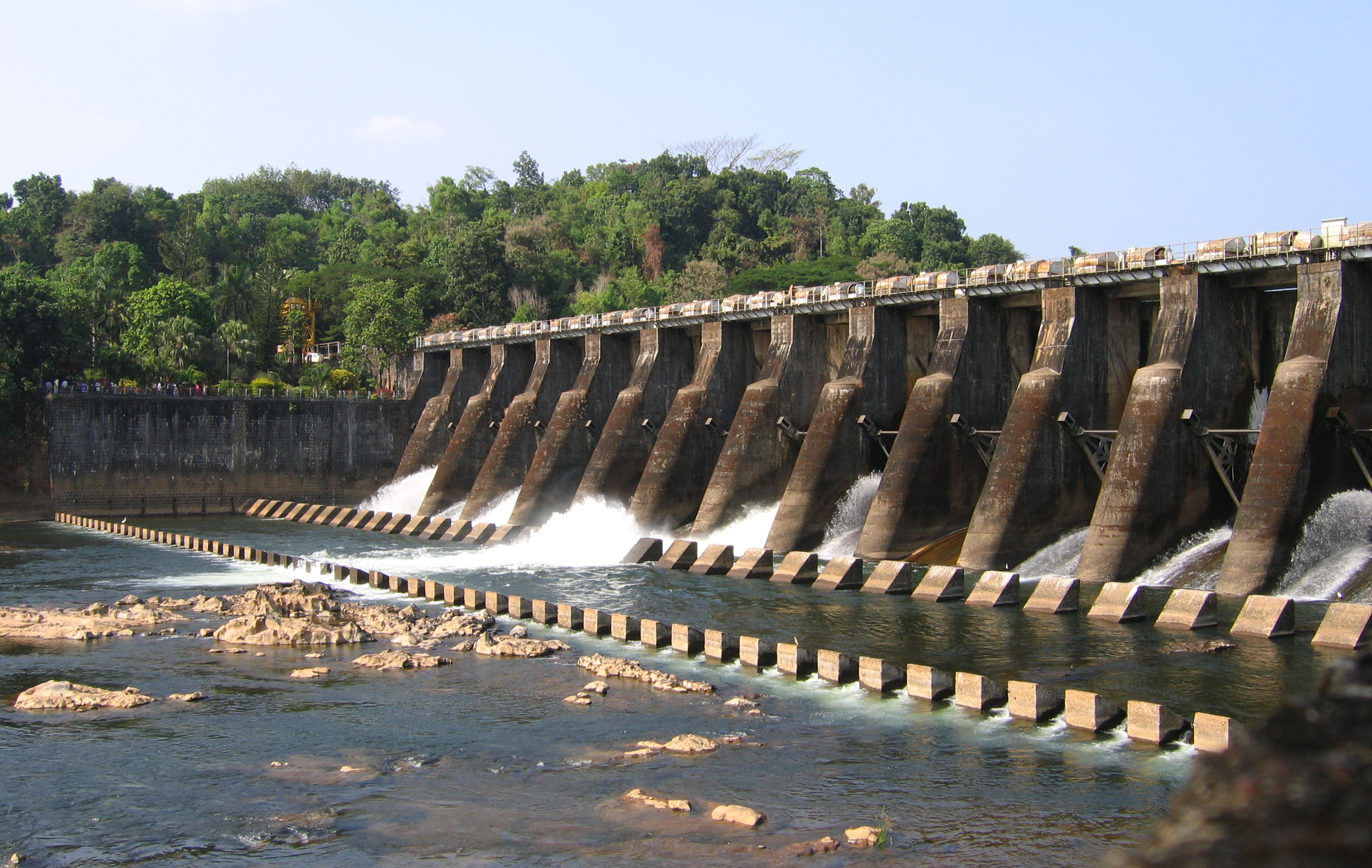 Pazhassi Dam - Dam, garden and reservoir - പഴശ്ശി ഡാം, പൂന്തോട്ടം, ഇരിട്ടി പുഴയില്‍ പഴശ്ശി പദ്ധതി കൊണ്ടുണ്ടായ തടാകം